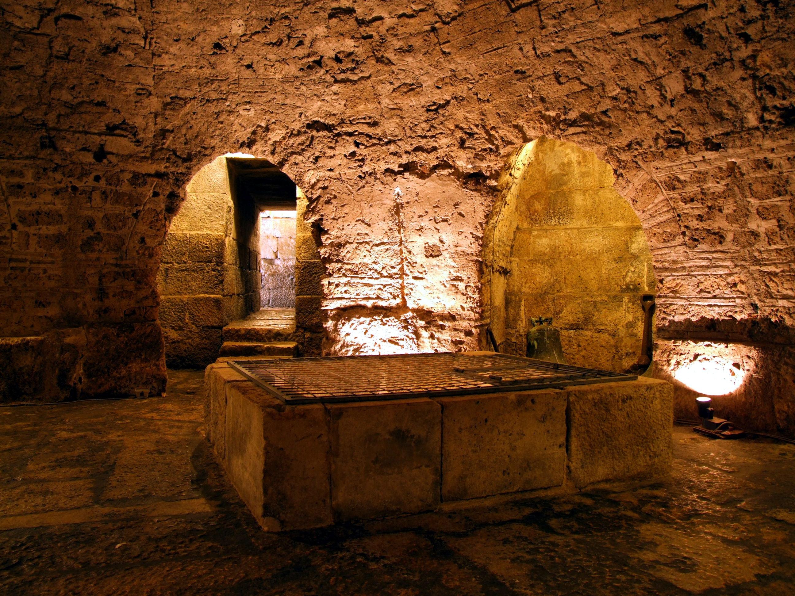 Split Cathedral - crypt of St. Lucy